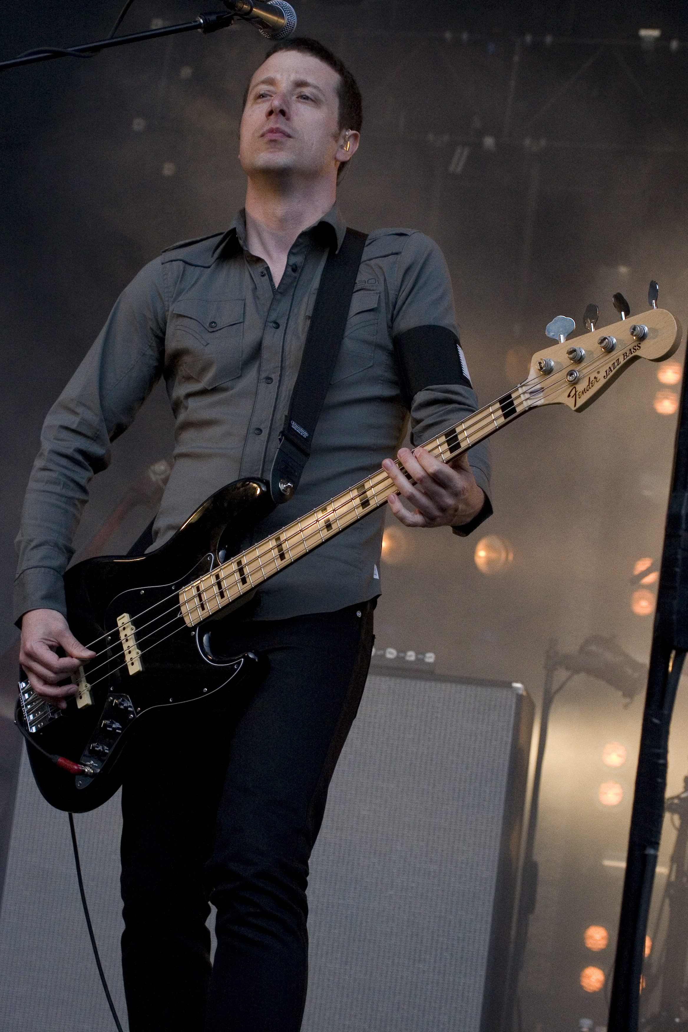 image of Justin Meldal-Johnsen, Nine Inch Nails, NIN/JA Tour, Santa Barbara, May 2009, shot by Fiona Bowie (gebgdc)